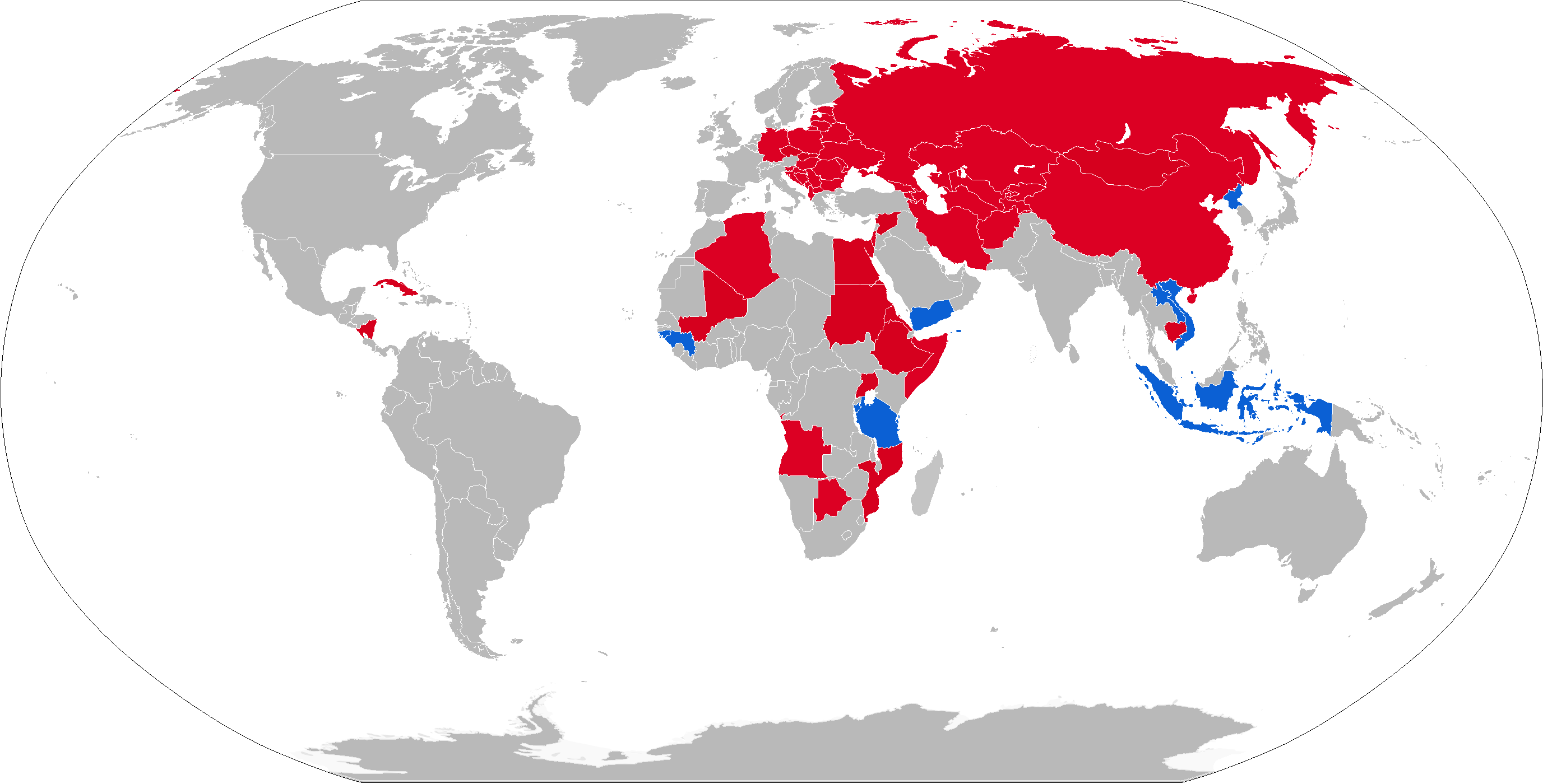 Map of BTR-40 operators in blue with former operators in red